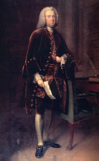 Portrait of Nicholas Fazakerley (died 1767), English lawyer and politician.